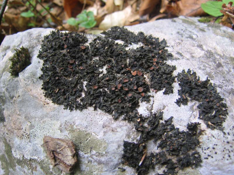 foliose lichen containig cyanobacteria